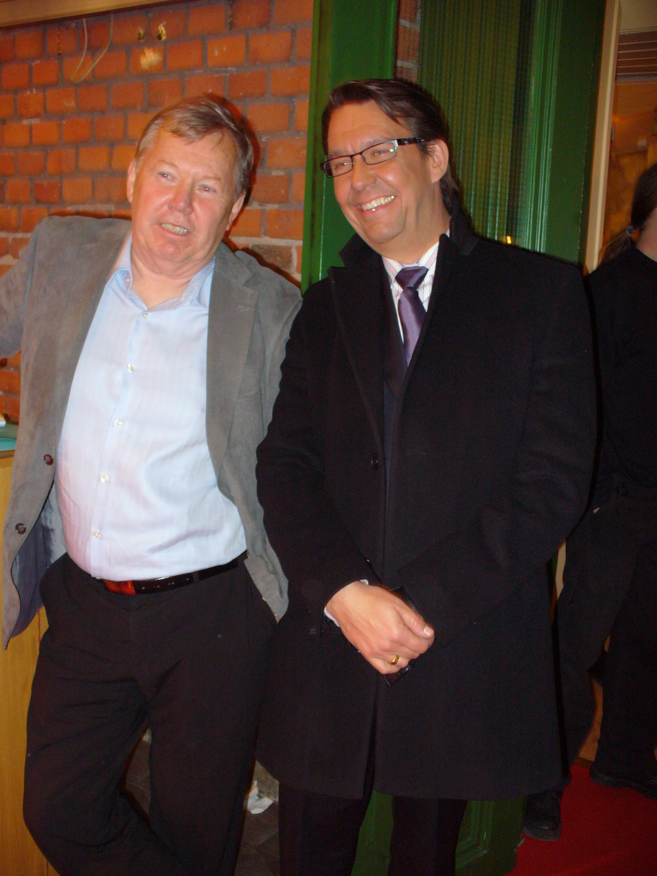 Bert Karlsson and Hasse Aro at Aftonbladet TV awards 2007.